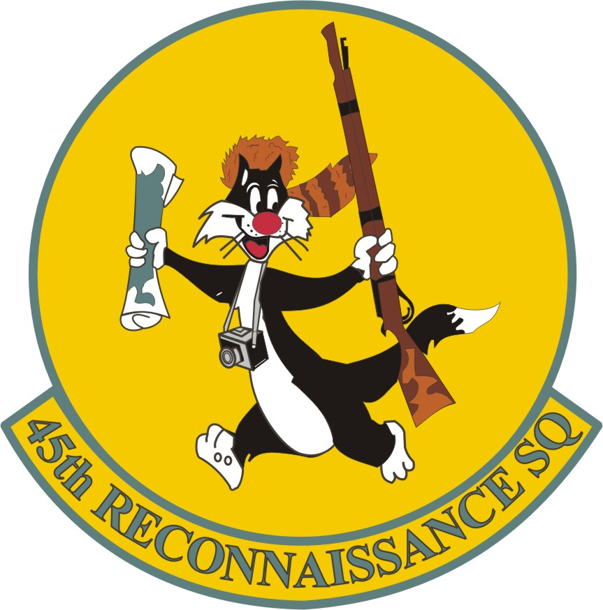 Squadron emblem of the 45th Reconnaissance Squadron, a U.S. Air Force unit of the 55th Wing based at Offutt AFB, Nebraska.